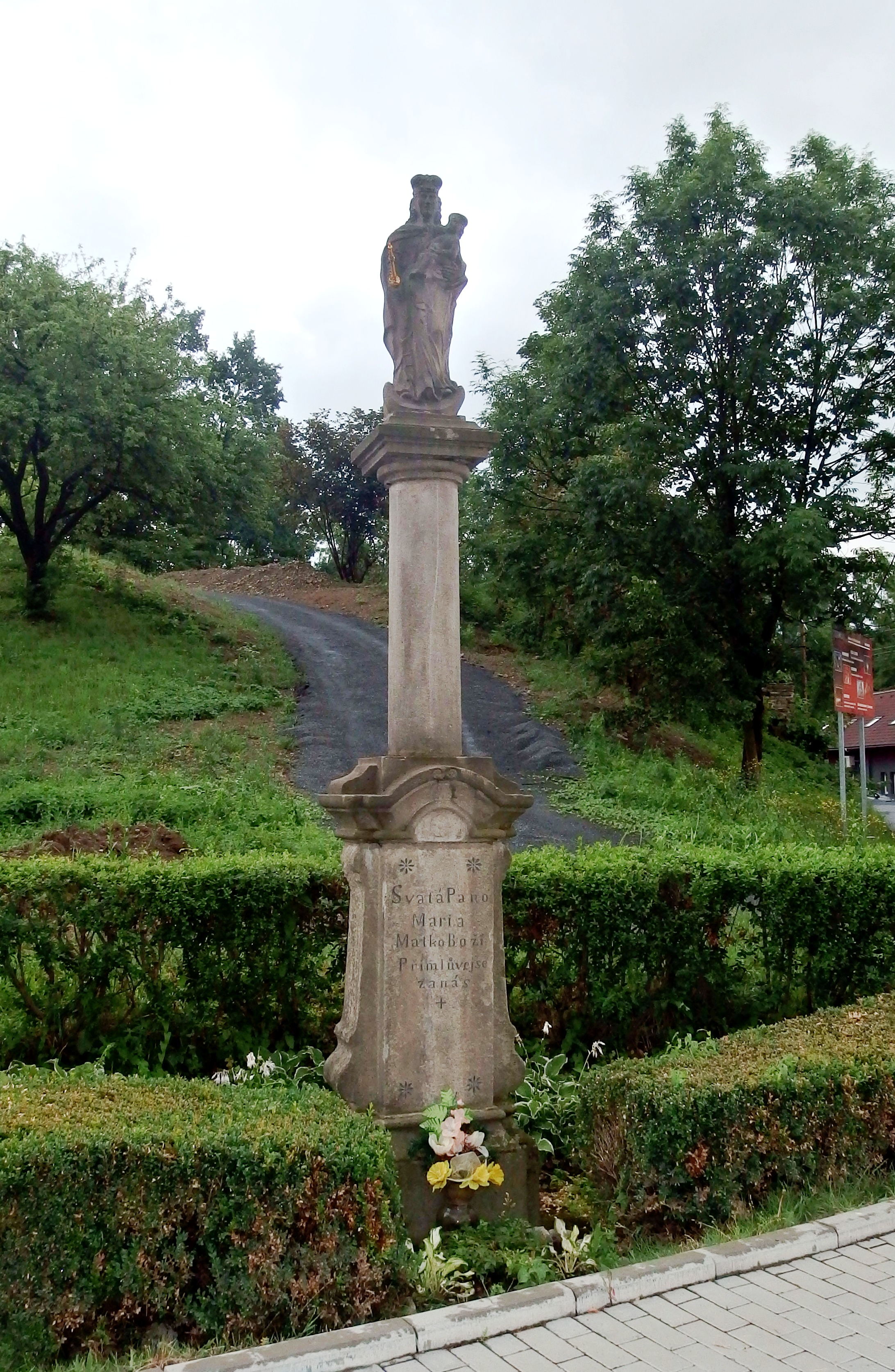 Kopřivnice, Nový Jičín District, Czech Republic, part Mniší.